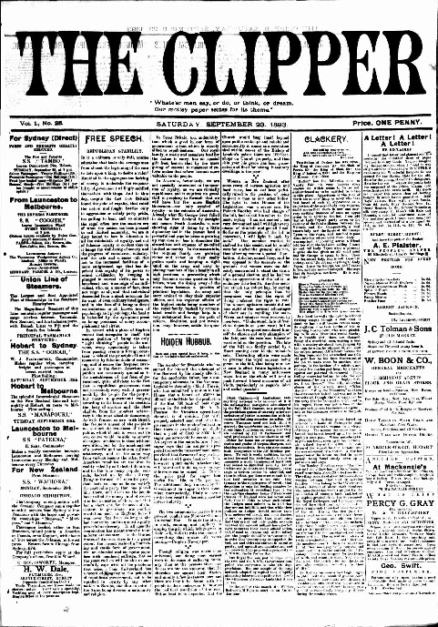 The front page of The Clipper Newspaper dated 23 September 1893